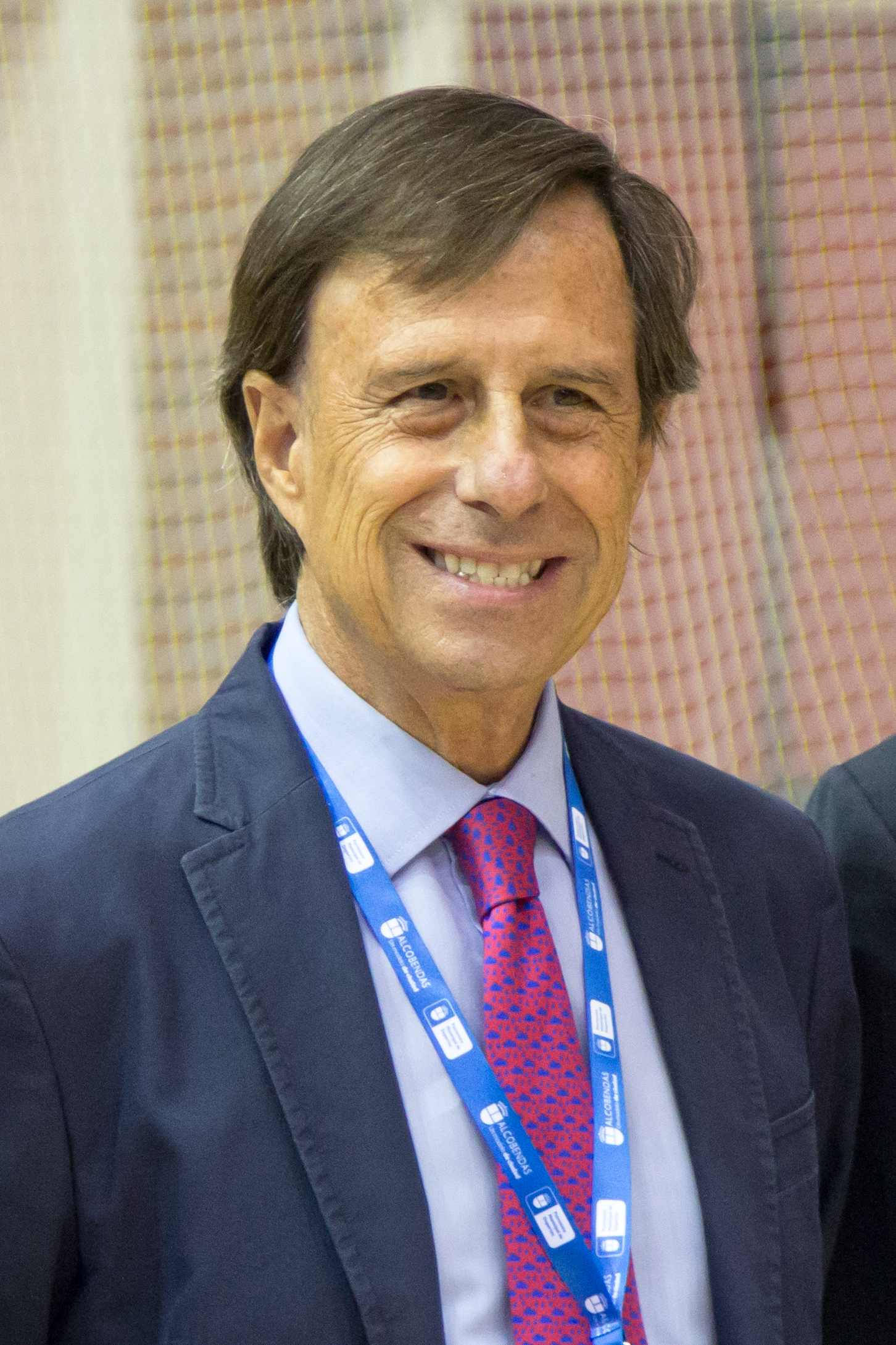 Ignacio García de Vinuesa, Mayor of Alcobendas, Spain.